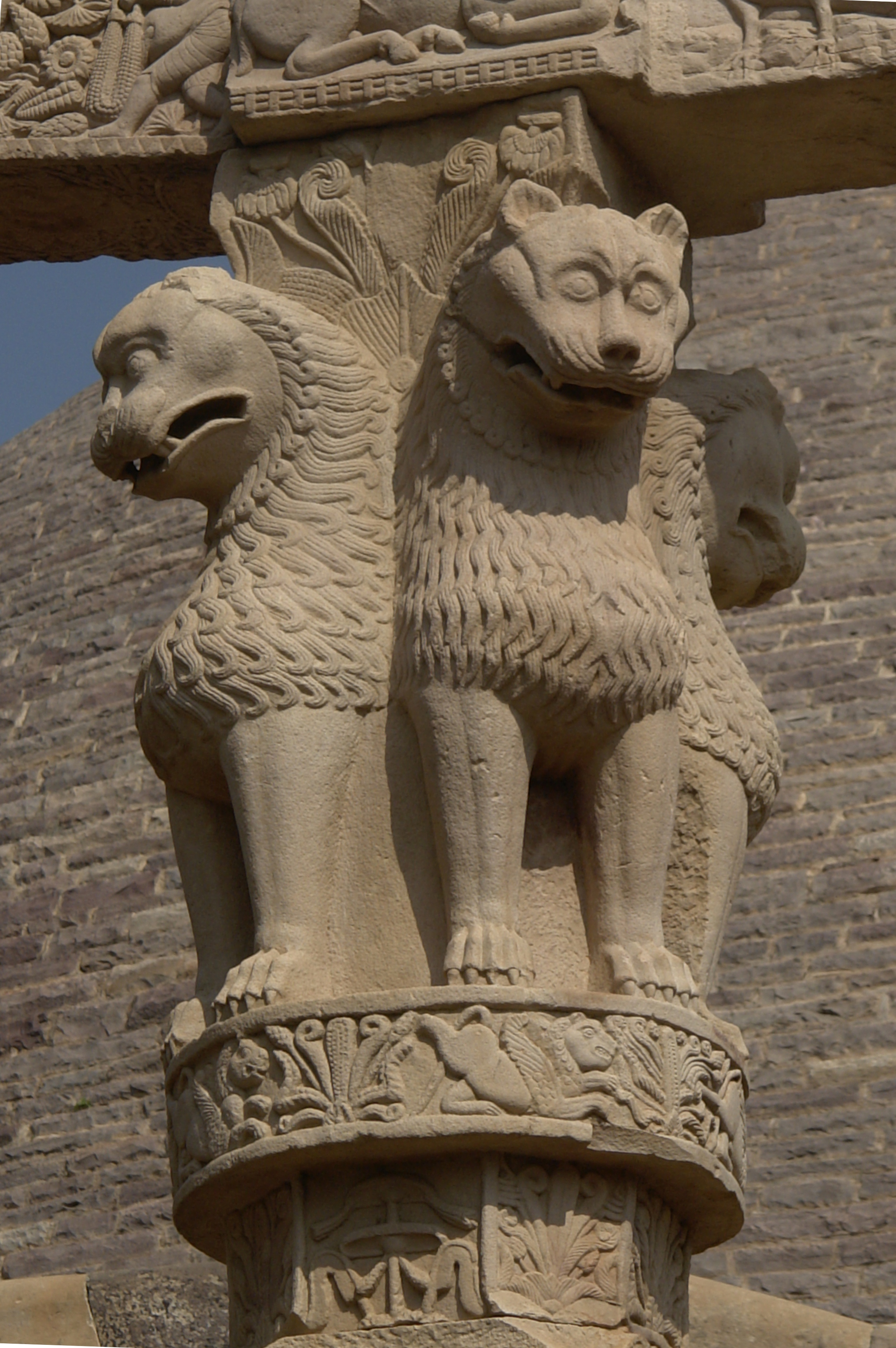 Lion Capital of Ashoka.jpg